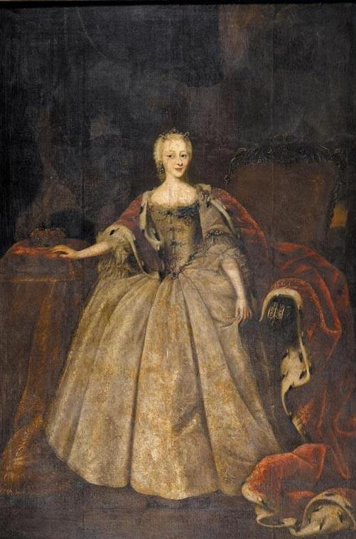 Portrait of Louise of Denmark (1726–1756), Duchess of Saxe-Hildburghausen